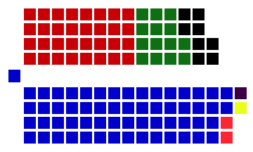 Allocation of seats to political party in the 50th New Zealand Parliament from the 2011 election.